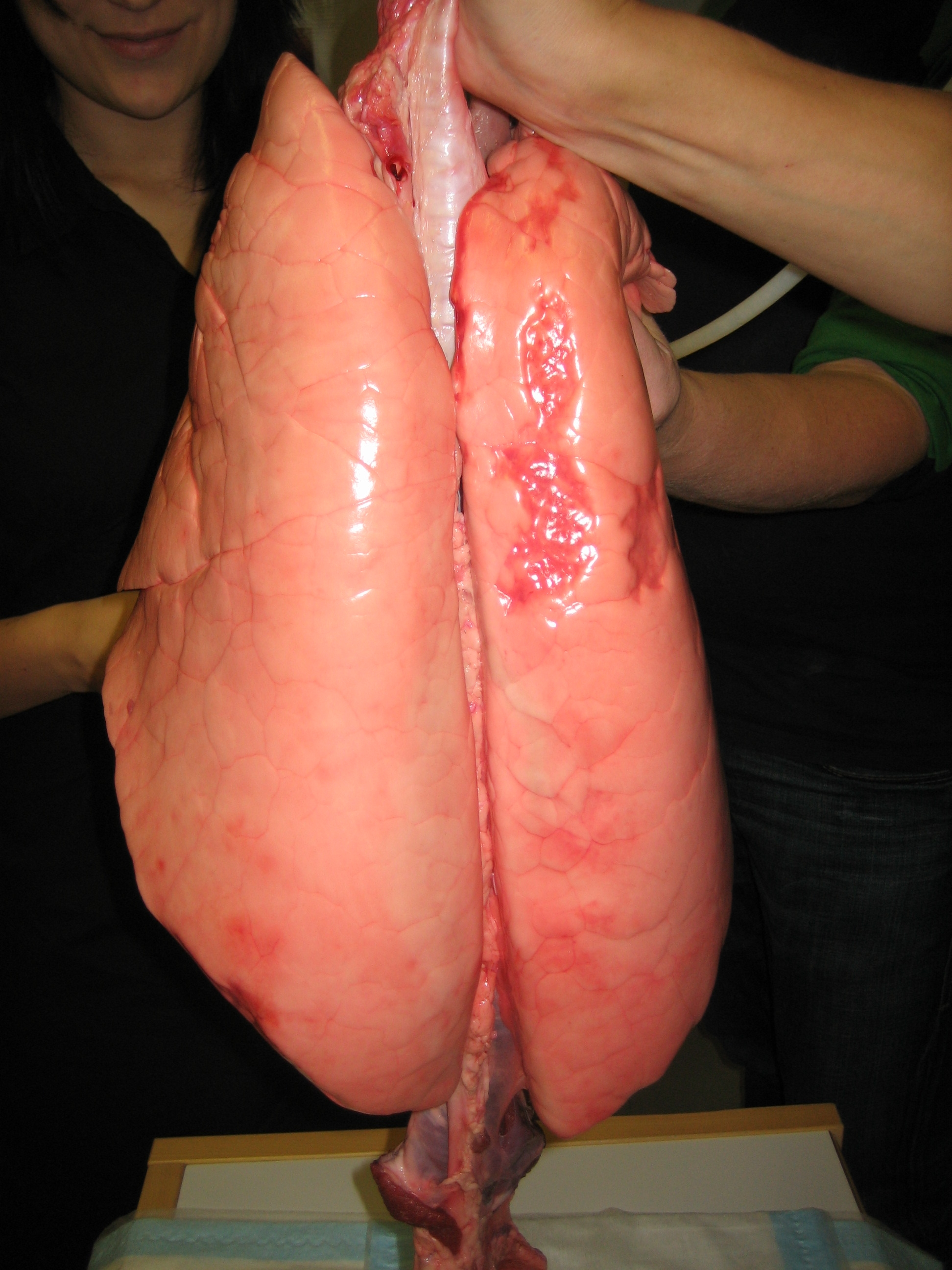 Pig's (Sus scrofa domesticus) lungs (pulmonae) filled with air